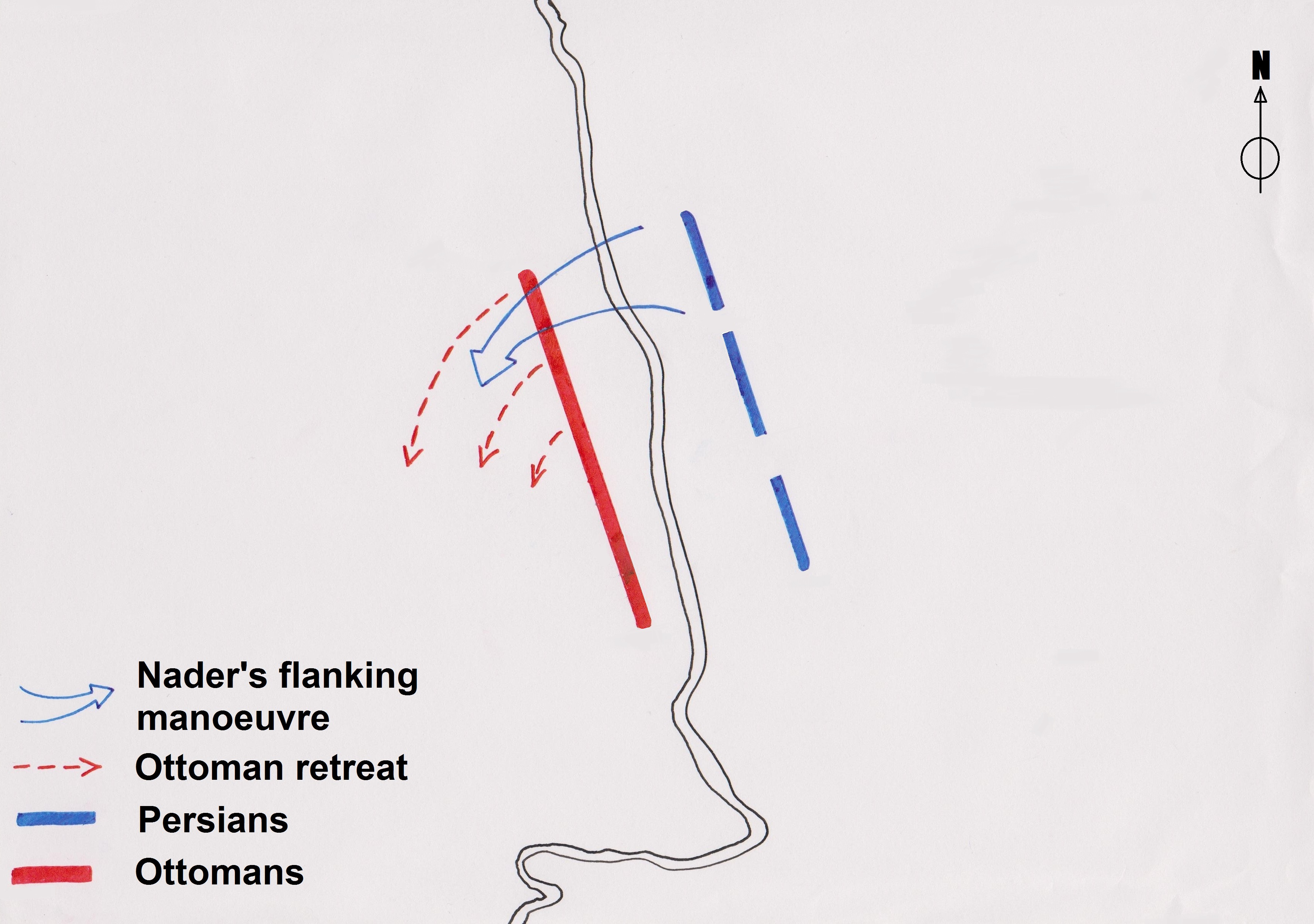 BattleofMalayerValley